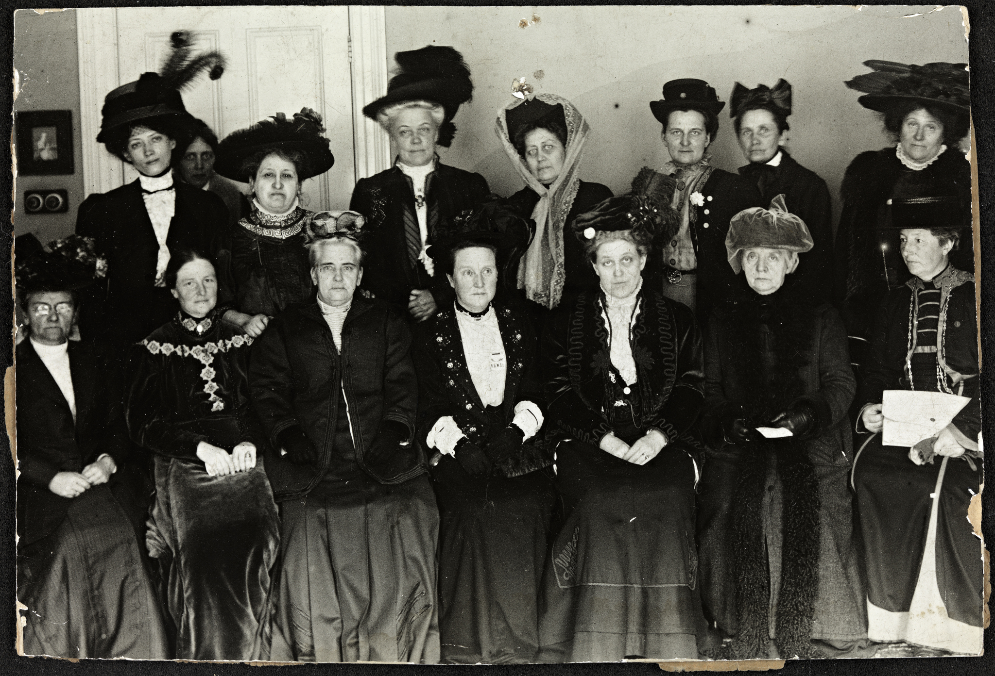 Tittel / Title: Suffrage Alliance Congress Beskrivelse / Description: Øverste rekke fra venstre: Thora Dangaard (Danmark), Dr. Louise Qvam (Norge), Dr. Aletta Jacobs (Nederland), Annie Furuhjelm (Finland), Madame Mirowitch (Russland), Dr. Schirmacher (Tyskland), Madame Honneger (Sveits), uidentifisert Nederst fra venstre: uidentifisert, Anna Bugge Wicksell (Sverige), Rev. Dr. Ann Shaw (USA), Mrs. Millicent Fawcett (presitend, England), Mrs. Chapmann Catt (USA), Fru F. M. Qvam (Norge), Dr. Anita Augsburg (Tyskland) Dato / Date: 1909 Fotograf / Photographer: ukjent / unknown Sted / Place: England, London Eier / Owner Institution: Nasjonalbiblioteket / National Library of Norway Lenke / Link: Bildesignatur / Image Number: blds_05676